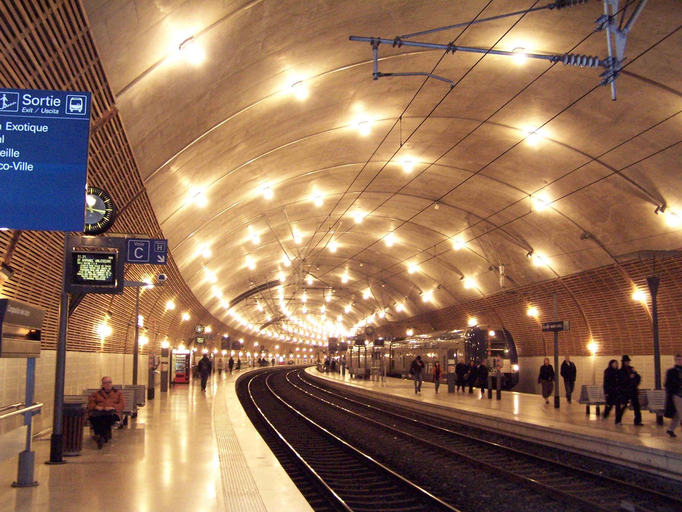 Monaco Railway station